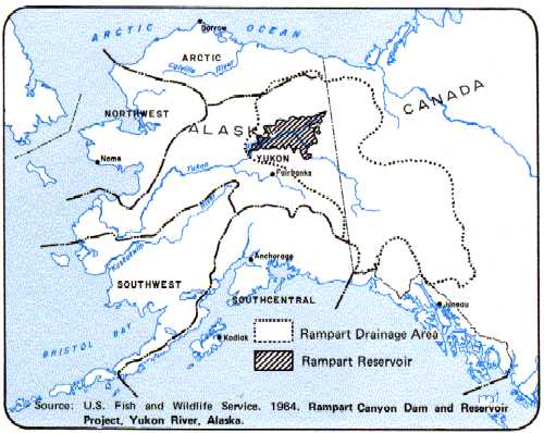 A map created by the U.S. Fish and Wildlife Service in 1964 to show the drainage basin and reservoir that would have been created by the construction of the proposed Rampart Dam on the Yukon River.